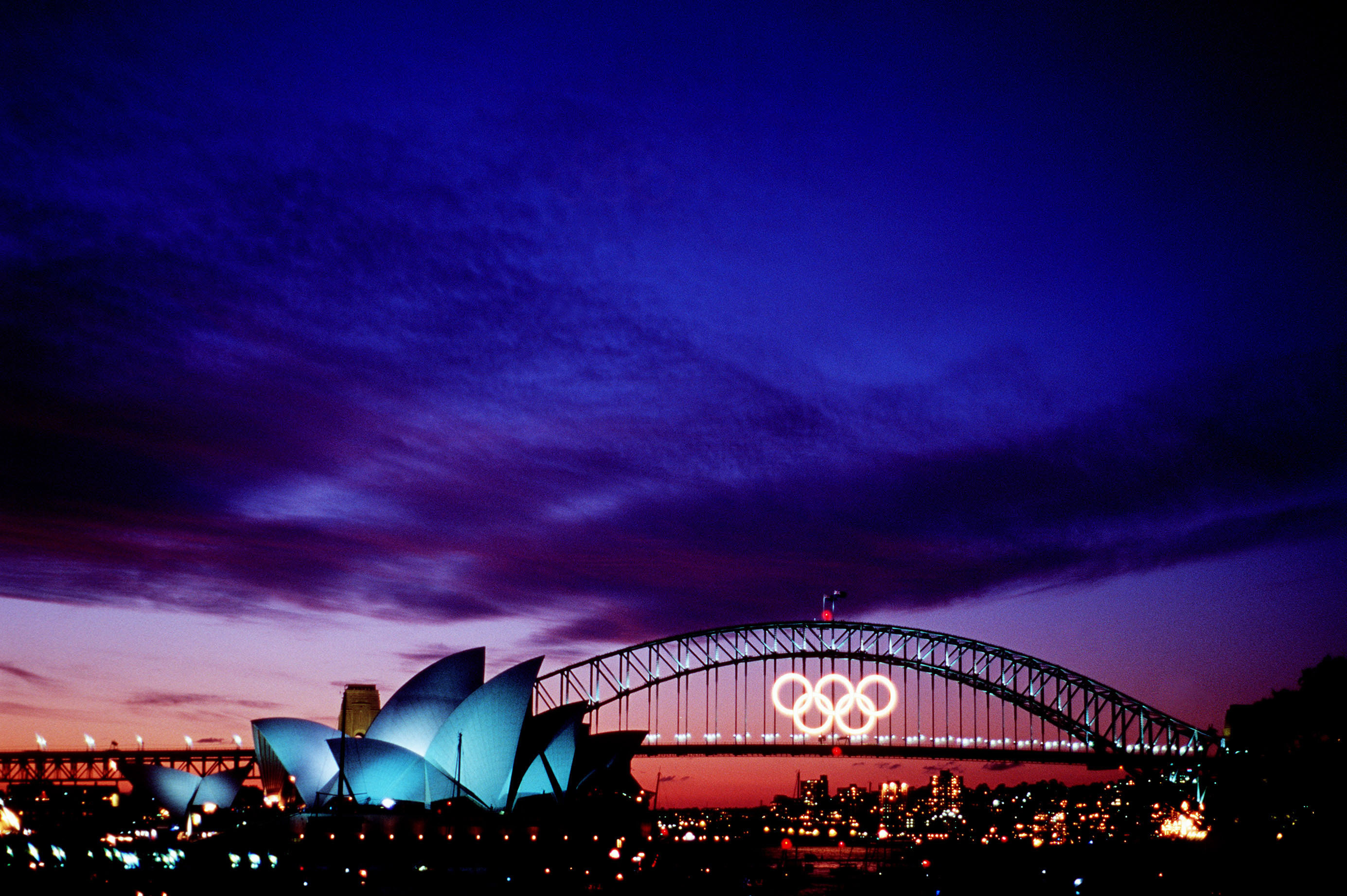 The last sunset over the Sydney Harbour Bridge before closing ceremonies of the Olympics games in Sydney, Australia.